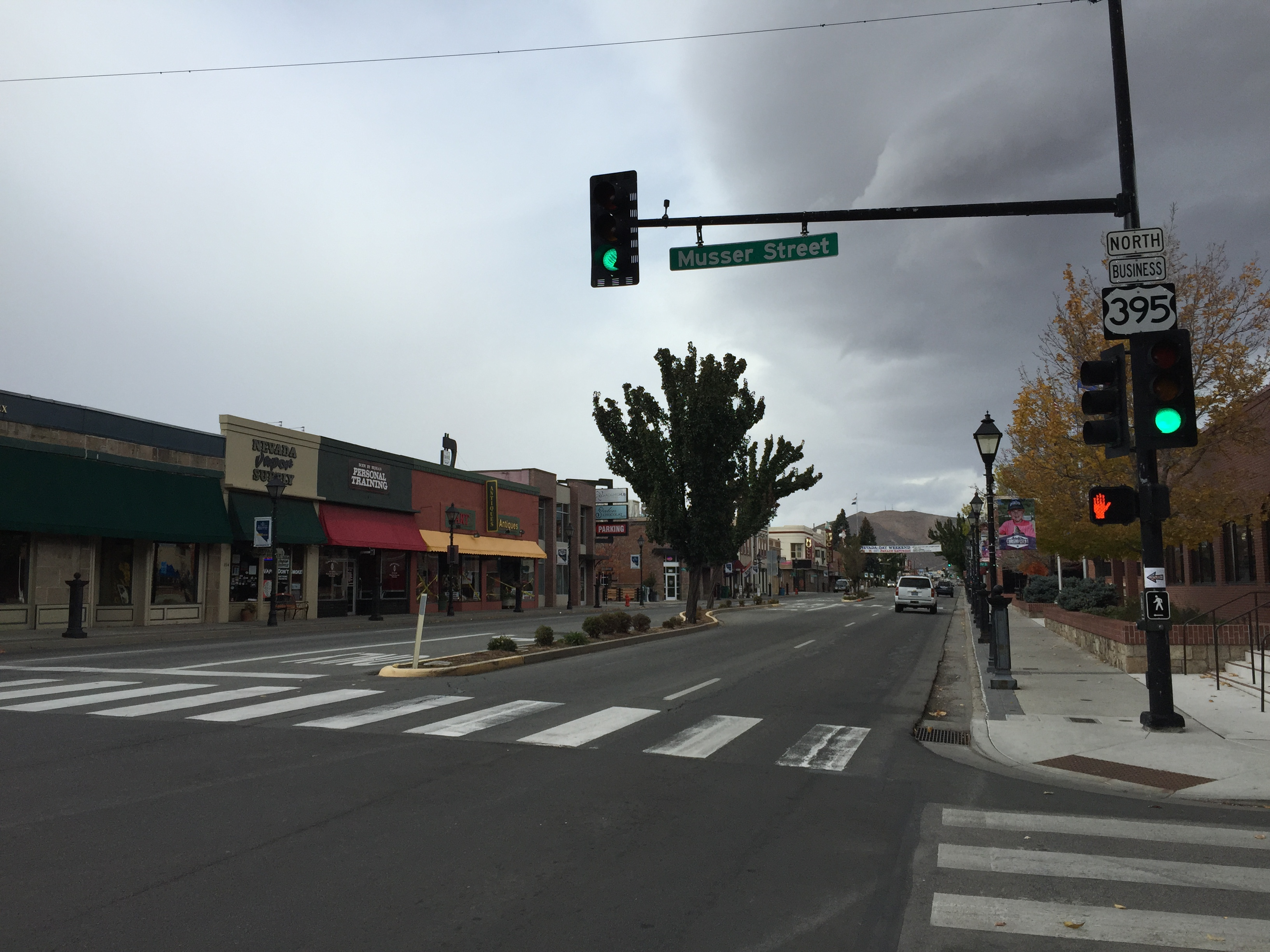 View north along Carson Street (U.S. Route 395 Business) at Musser Street in downtown Carson City, Nevada